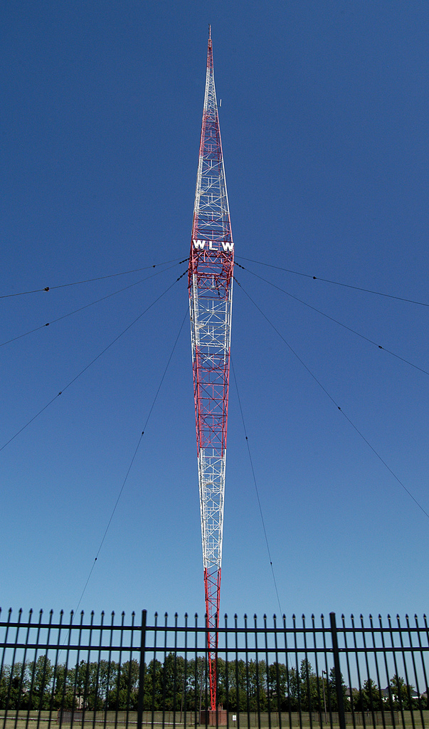 The single Blah-Knox transmission tower for radio station WLW-AM in Cincinnati, Ohio